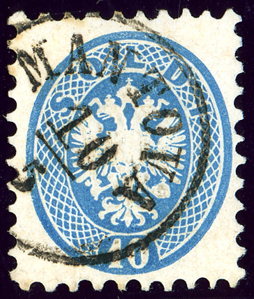 Stamp of Lombardy-Venetia, 10 soldi issue 1864, cancelled at MANTOVA (Mantova province). Michel 22.